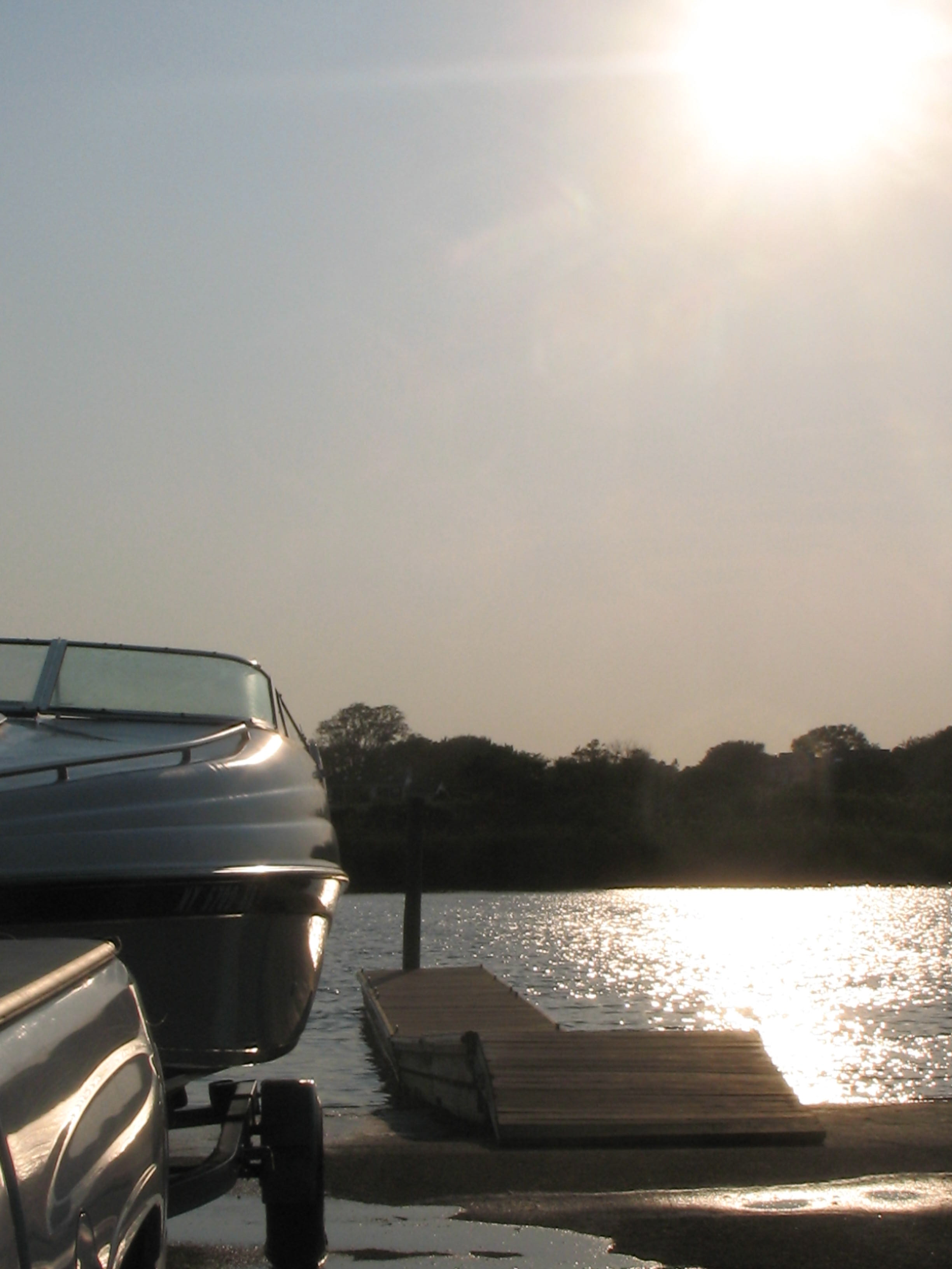 Pine Neck Swan River... Stevan